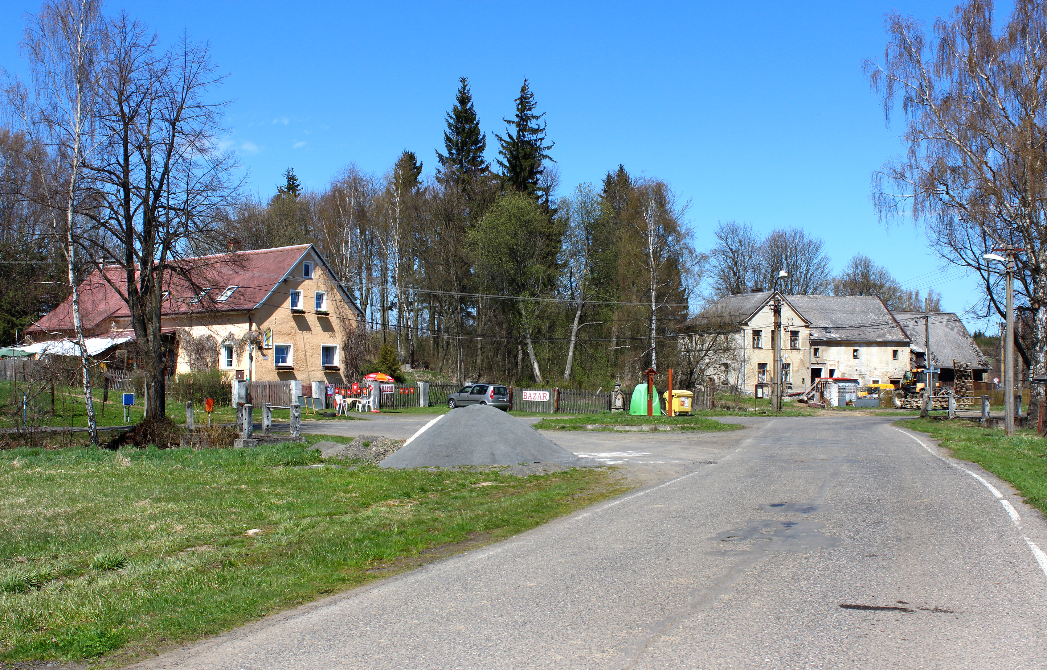 Common in Mrázov, part of Teplá, Czech Republic